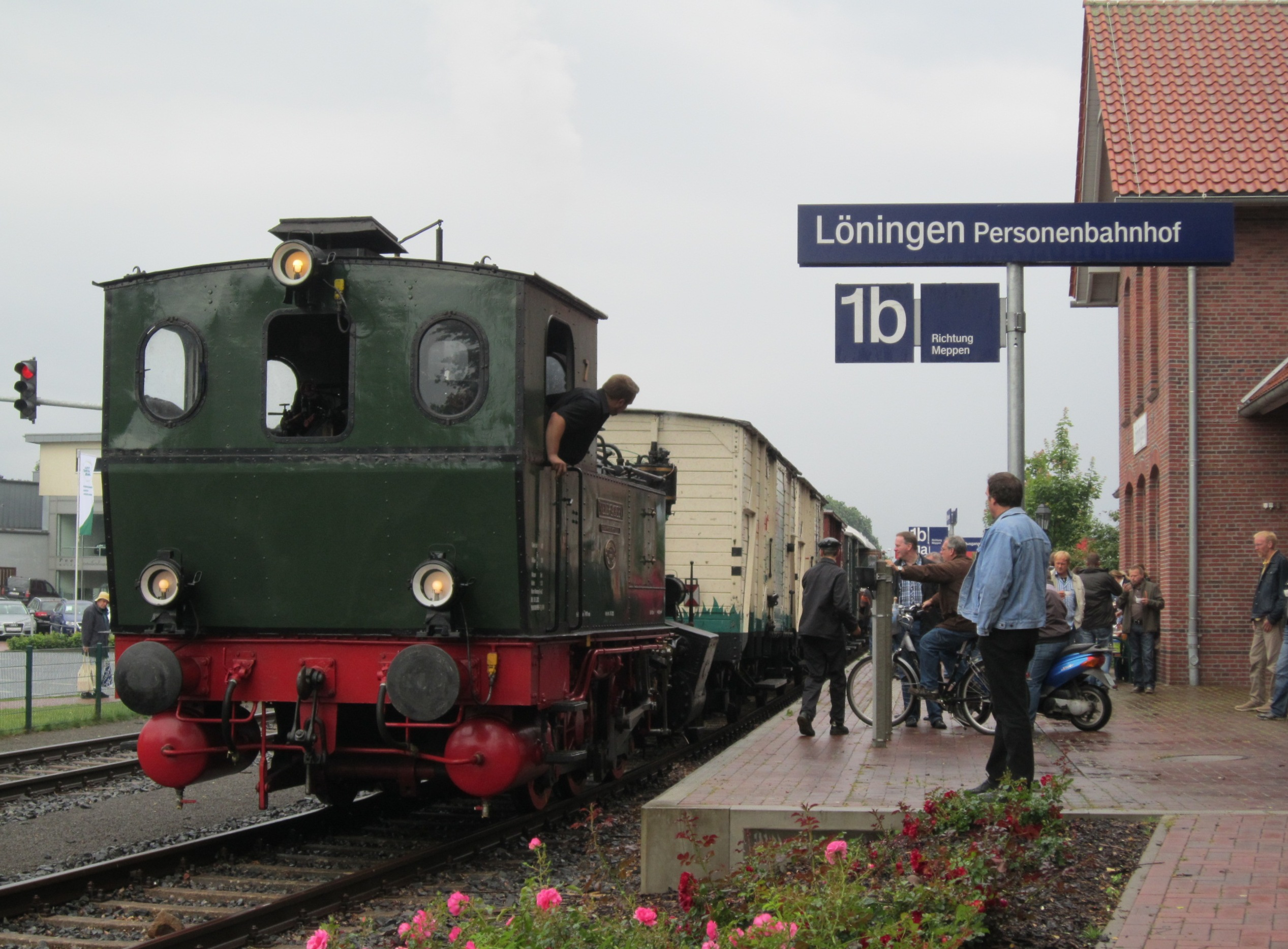 Meppen-Haselünner Eisenbahn: Löningen heritage railway station